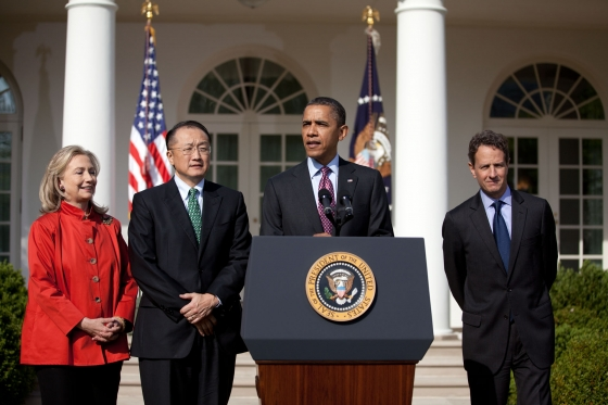 United States President Barack Obama announces Dr. Jim Yong Kim, second from left, as his nominee to head the World Bank Group, during a statement in the Rose Garden of the White House, March 23, 2012. Secretary of State Hillary Rodham Clinton and Treasury Secretary Timothy Geithner also attended the announcement.